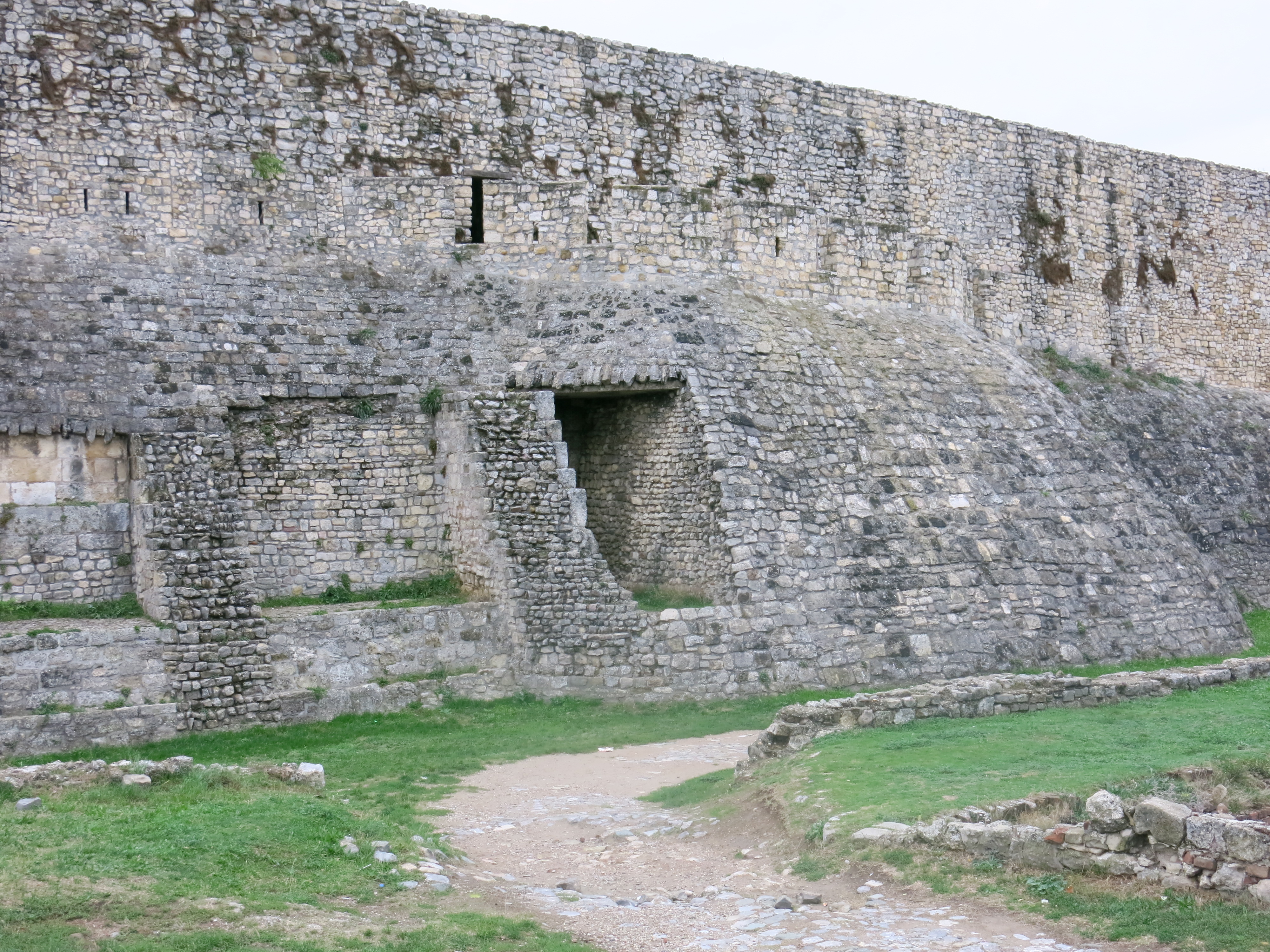 Belgrade Fortress consists of the old citadel (Upper and Lower Town) and Kalemegdan Park (Large and Little Kalemegdan) on the confluence of the River Sava and Danube, in an urban area of modern Belgrade, the capital of Serbia. It is located in Belgrade's municipality of Stari Grad. Belgrade Fortress was declared a Monument of Culture of Exceptional Importance in 1979, and is protected by the Republic of Serbia. It is the most visited tourist attraction in Belgrade, with Skadarlija being the second. Since the admission is free, it is estimated that the total number of visitors (foreign, domestic, citizens of Belgrade) is over 2 million yearly.